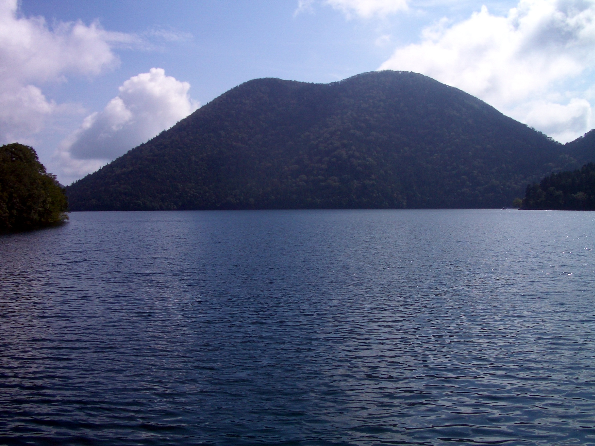 Lake Shikaribetsu and Mount Tenbo, in Shikaoi, Hokkaido, Japan.